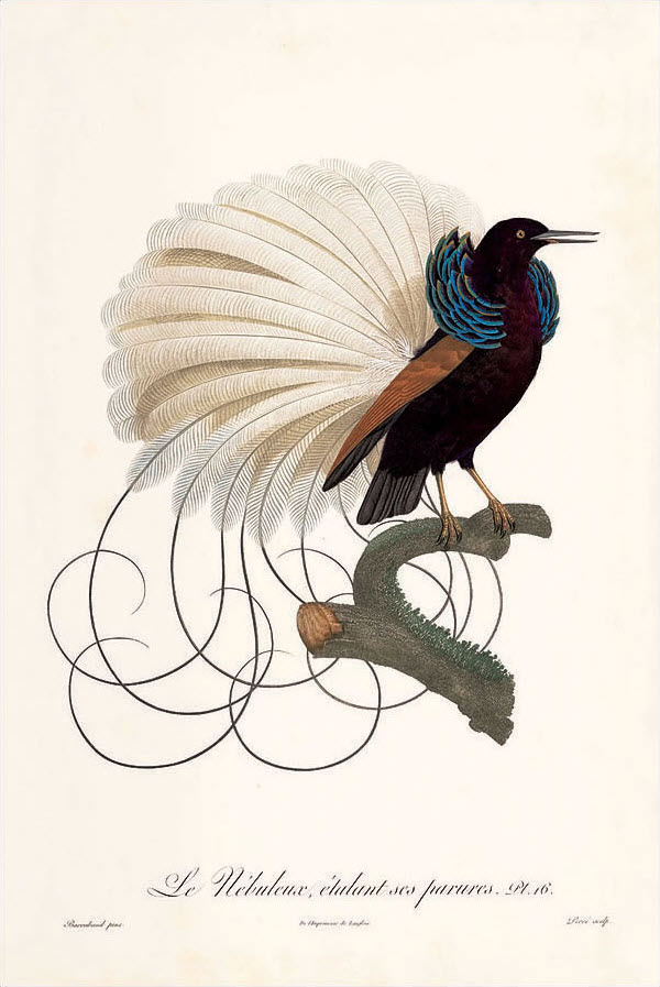 Le Nébuleux étalant ses parures, plate no. 16, from "Histoire naturelle des Oiseaux de paradis et des Rolliers", published by Jacques Barraband and François Levaillant (original illustration in watercolor)